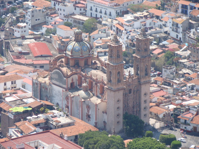 Taxco Cathedral